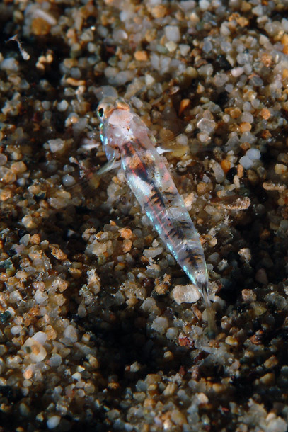 Pomatoschistus bathi photographed near Tuscany coasts (Italy). Photo by Stefano Guerrieri.